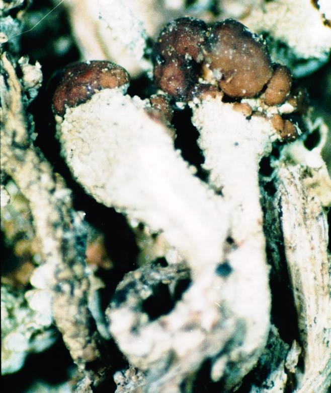 Cladonia cariosa (Ach.) Spreng., 1827 (photograph of a herbarium specimen taken through a dissecting microscope (x21) showing chocolate-brown apothecia) Growing on a rock outcrop in an open field at Soldiers Delight Natural Environment Area, Baltimore County, Maryland, USA; collected and identified by Elmer G. Worthley (No. L-9, 9 Mar 1980); specimen is now in the Lichen Herbarium of the New York Botanical Garden.